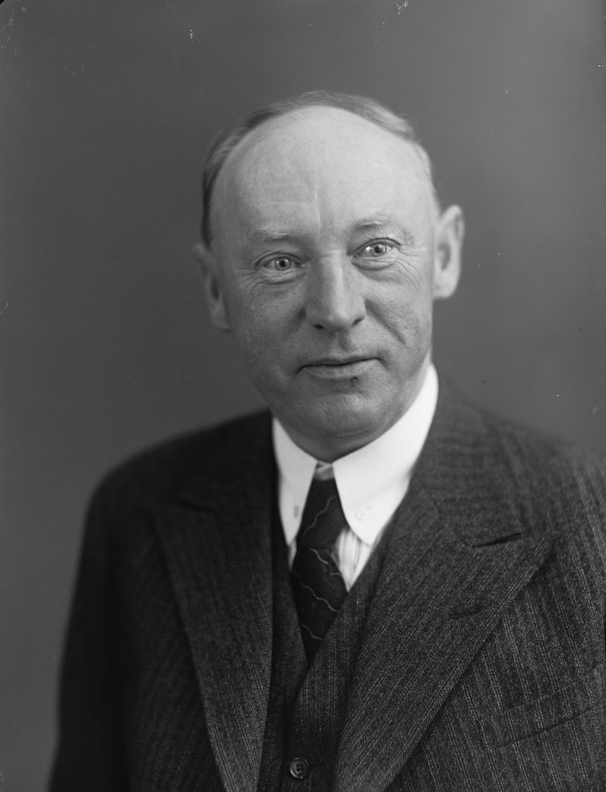 The Norwegian professor and specialist in hydropower engineering, Gudmund Sundby (1878–1973)